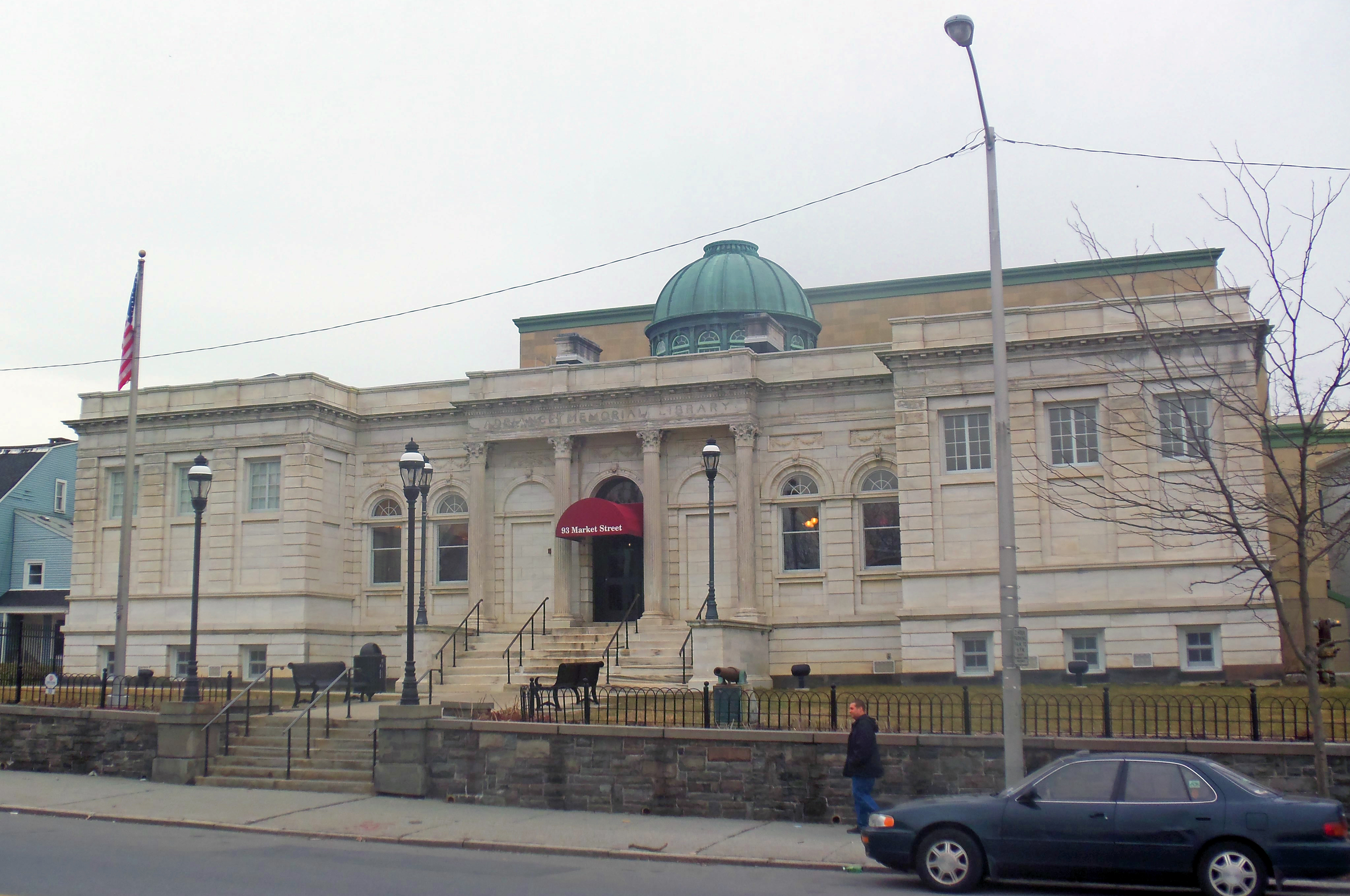 Adriance Memorial Library, Poughkeepsie, NY, USA, after renovations and expansion.